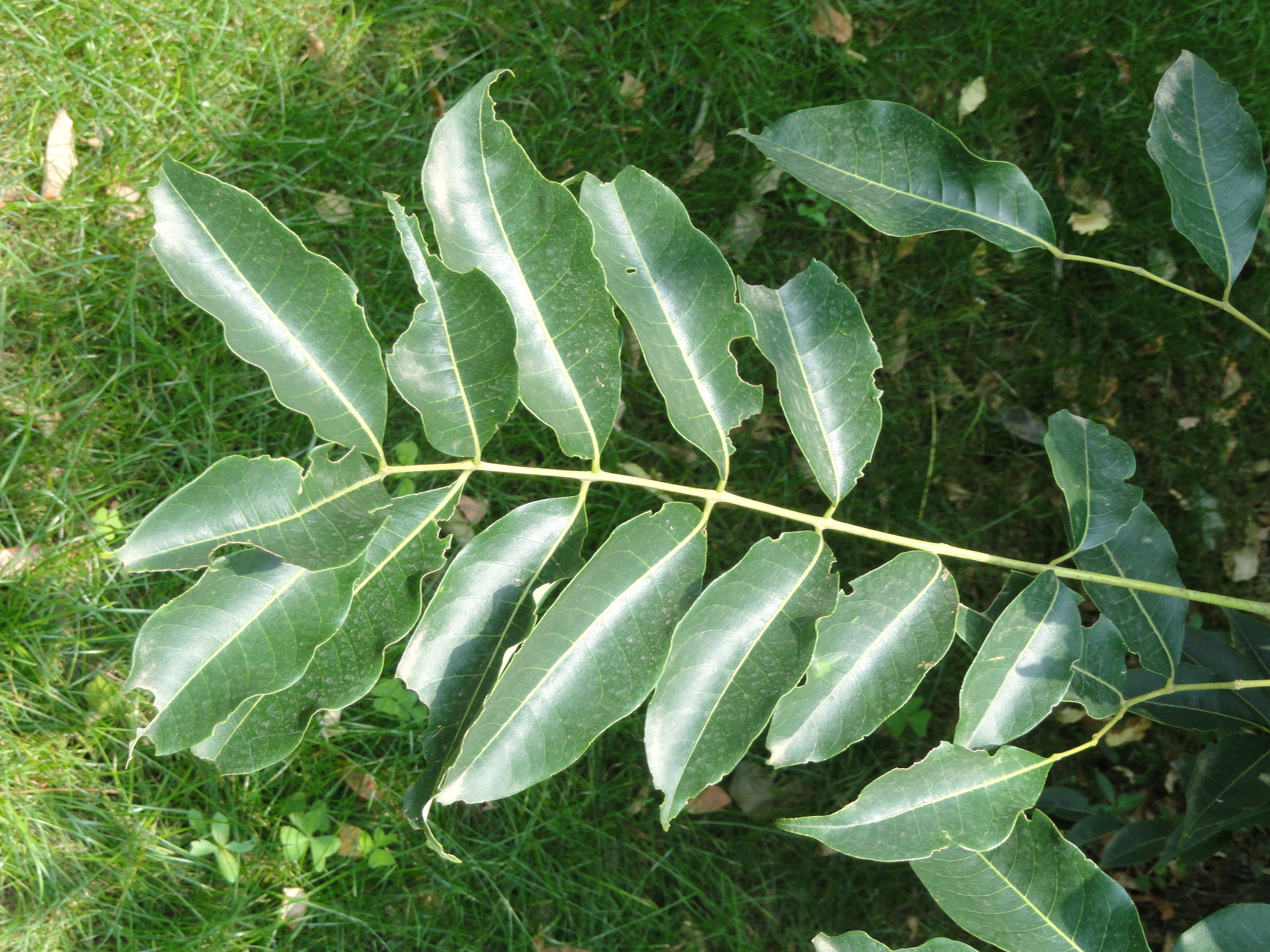 Plant specimen in the Kunming Botanical Garden, Kunming, Yunnan, China.